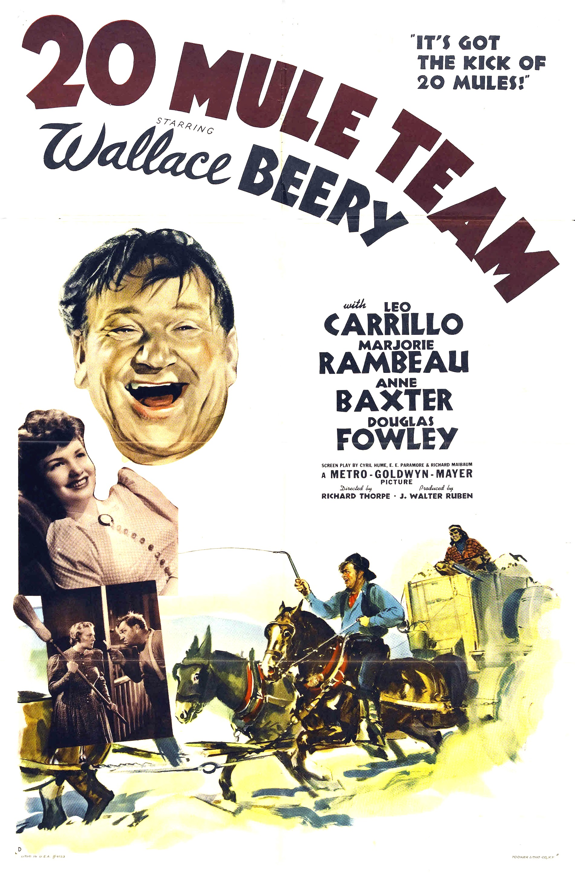 Poster for the 1940 film 20 Mule Team. There are no copyright marks. At bottom left is "D"-poster style D-Litho in USA #4723. At bottom right is Tooker Litho Co, NY-they printed the poster.